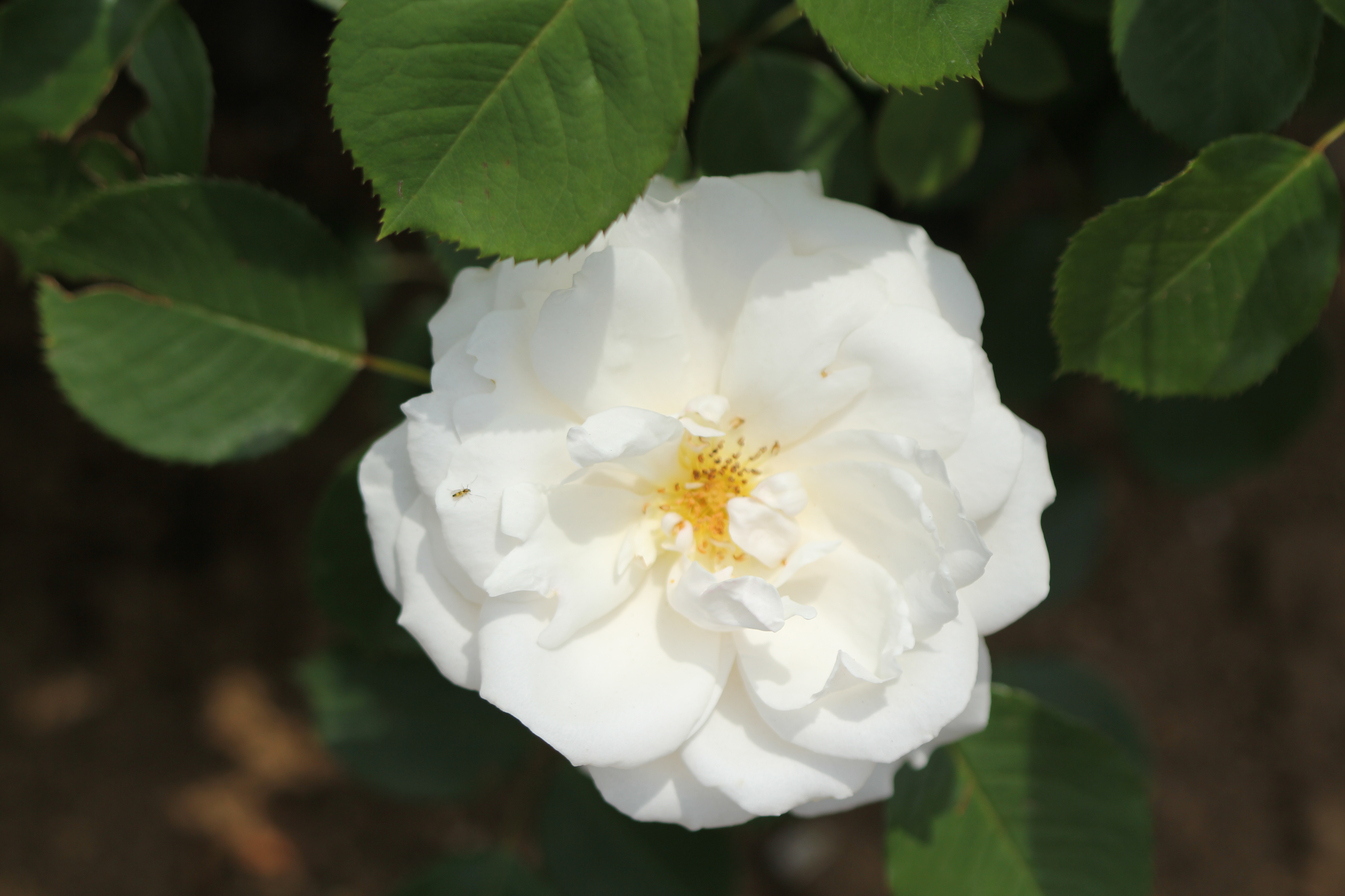 Rosa 'Princess of Wales', Harkness 1997 This is NOT the Light pink Hybrid Perpetual developed in 1871, but the white Floribunda from 1997!